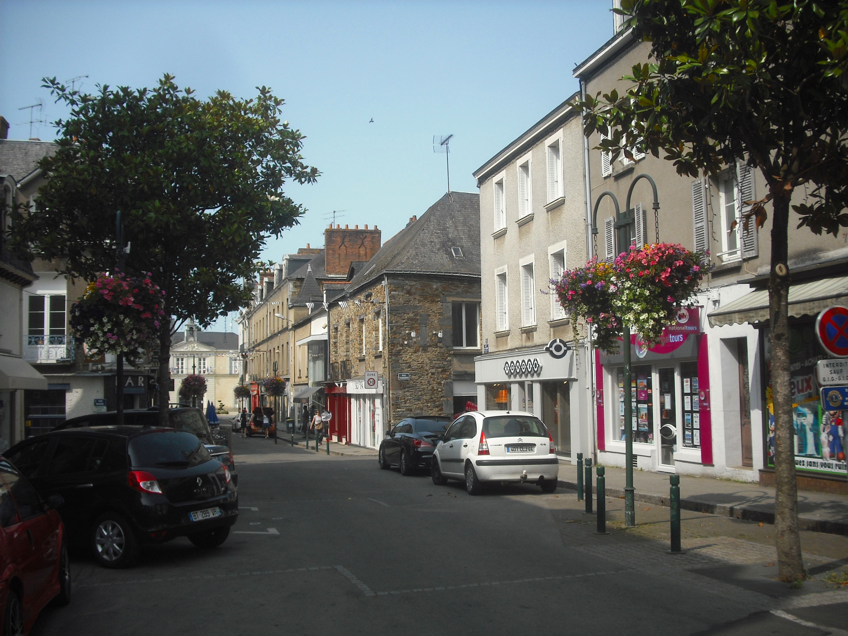 Rue Aristide-Briand, Châteaubriant, Loire-Atlantique, France.